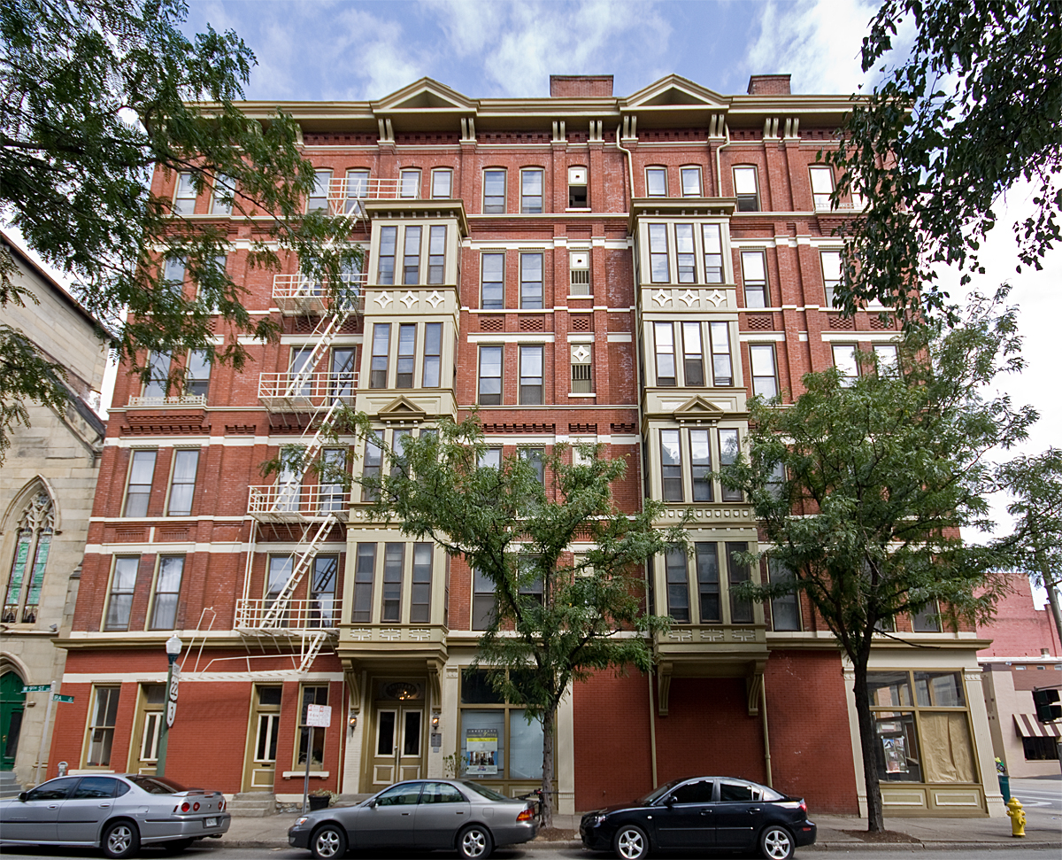 Brittany Apartments in Cincinnati, OH. Photo by Greg Hume